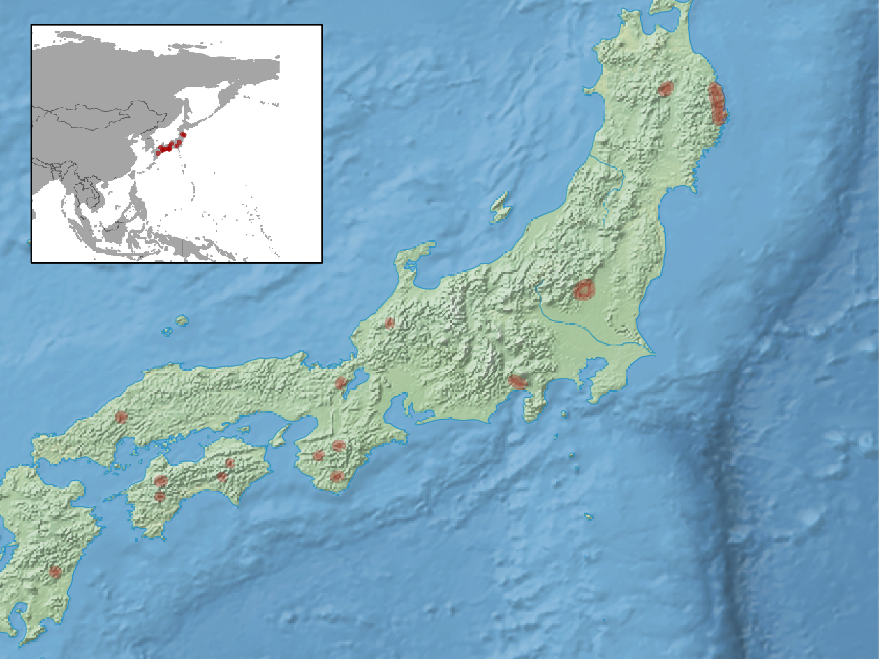 geographic distribution of Myotis pruinosus